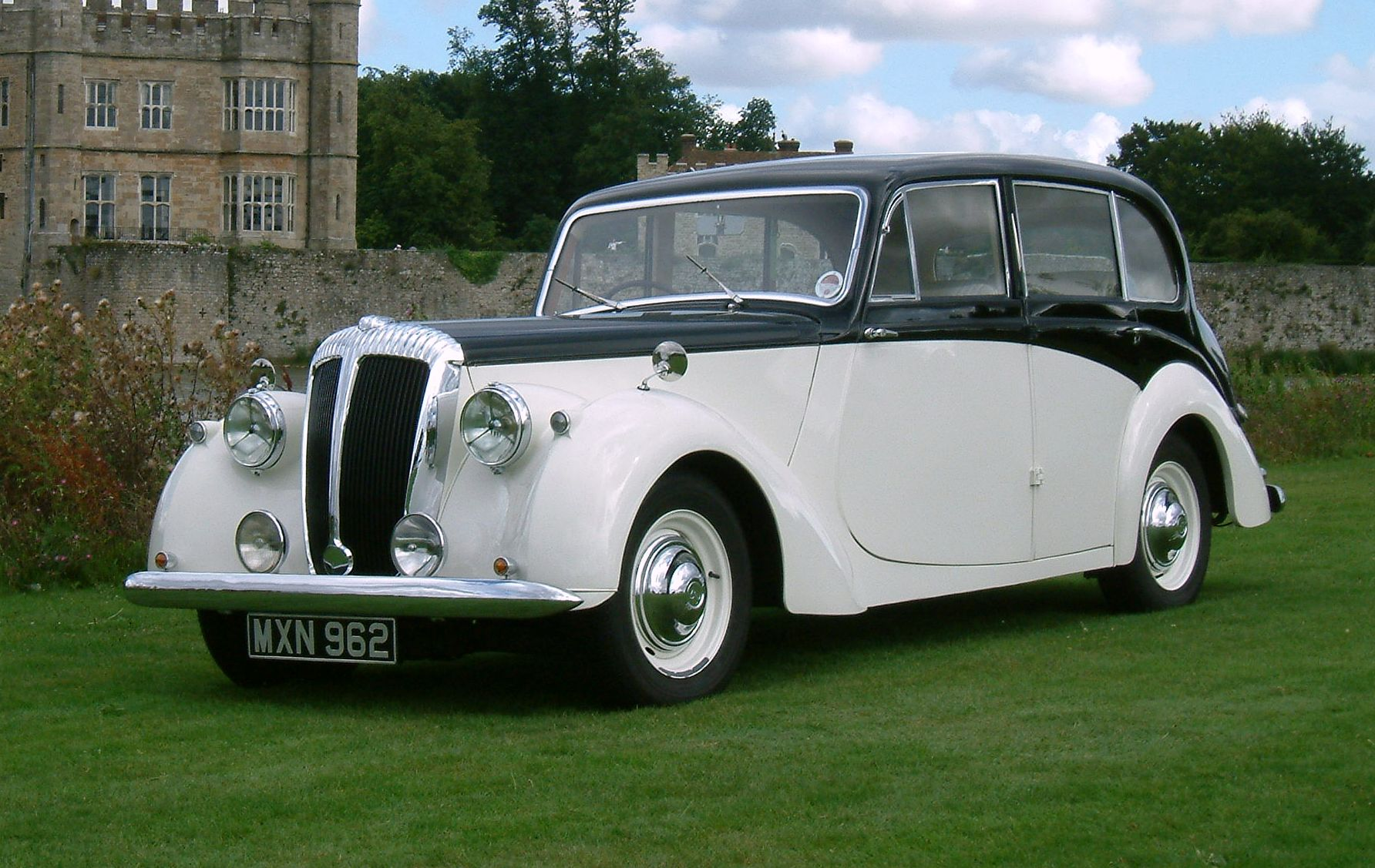 Daimler DB18 Consort 1952 at Leeds Castle Maidstone Classic Car Event summer 2008